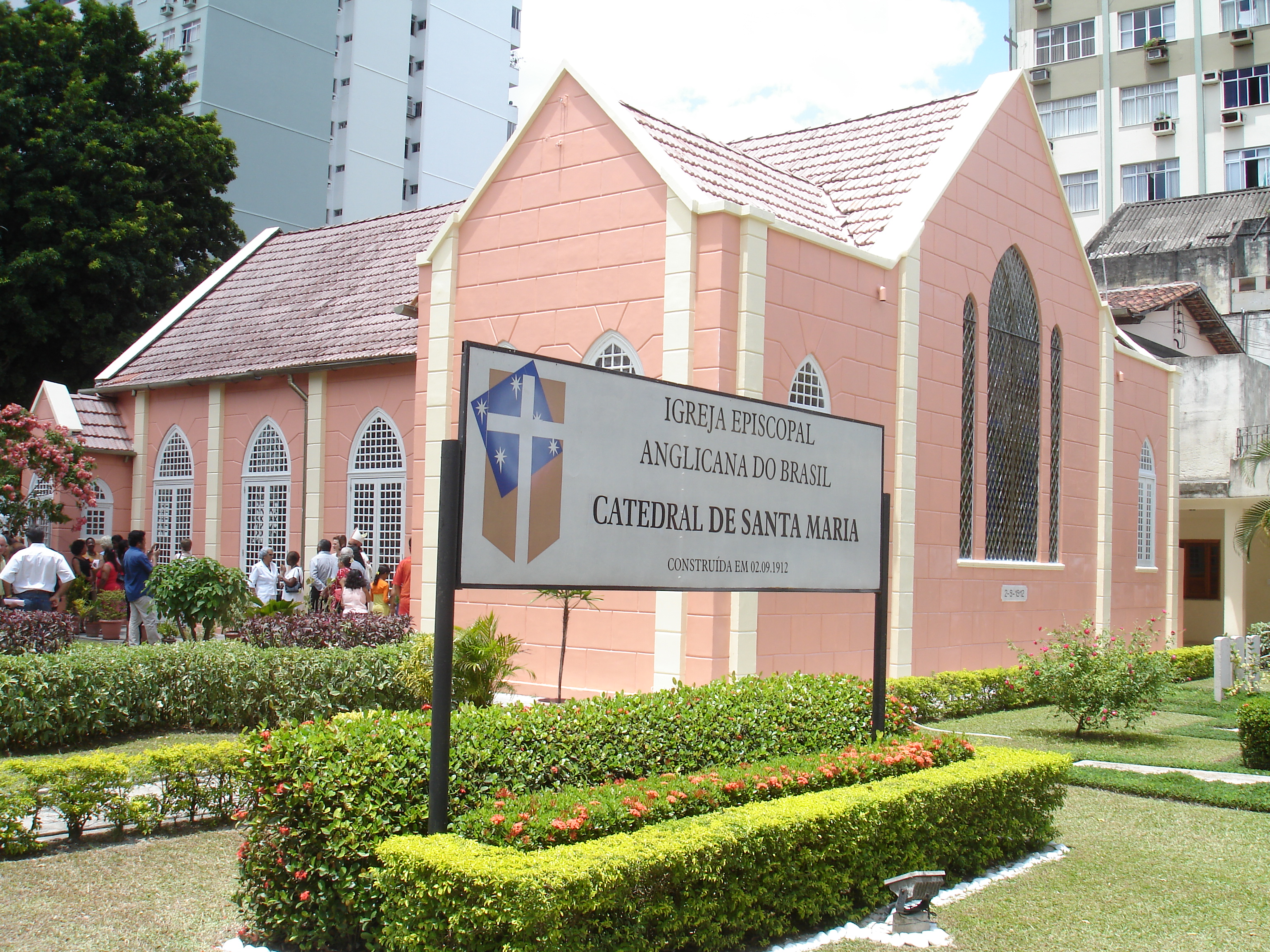 Cathedral of Santa Maria, Anglican Episcopal Church of Brazil, Diocese of Amazonia (Belém, Pará)